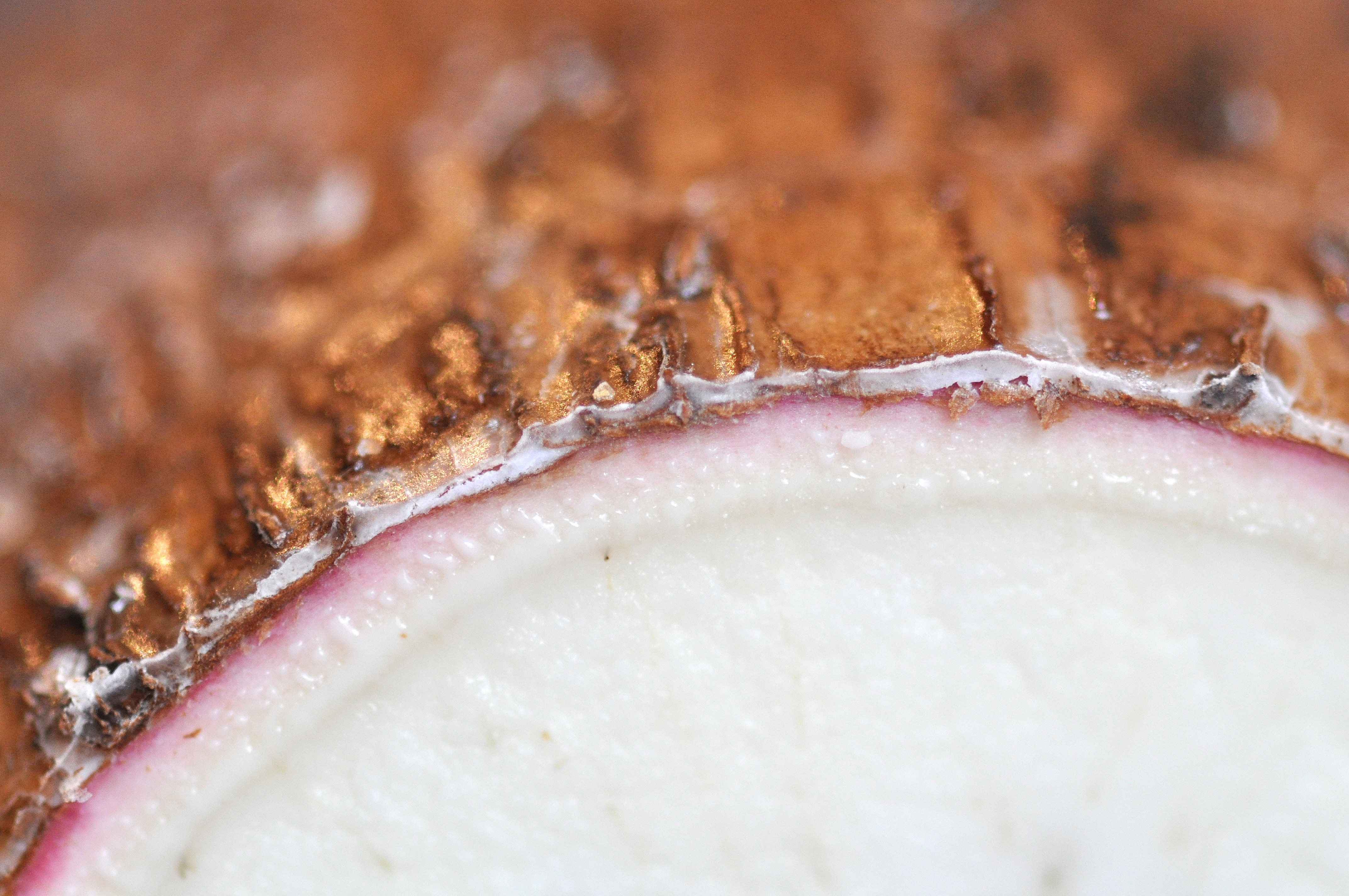 A manioc tuber cross section. Manihot esculenta, also called yuca